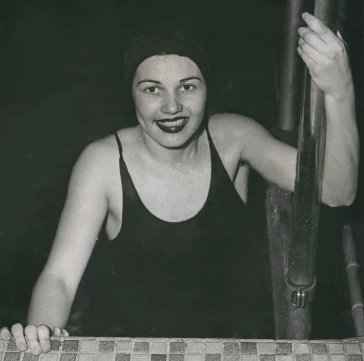 1945 Press Photo Jeanne Wilson after breaking 100 yard American Breast Stroke